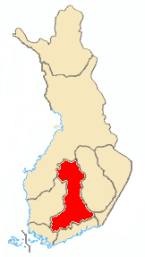 Historical province of Tavastia